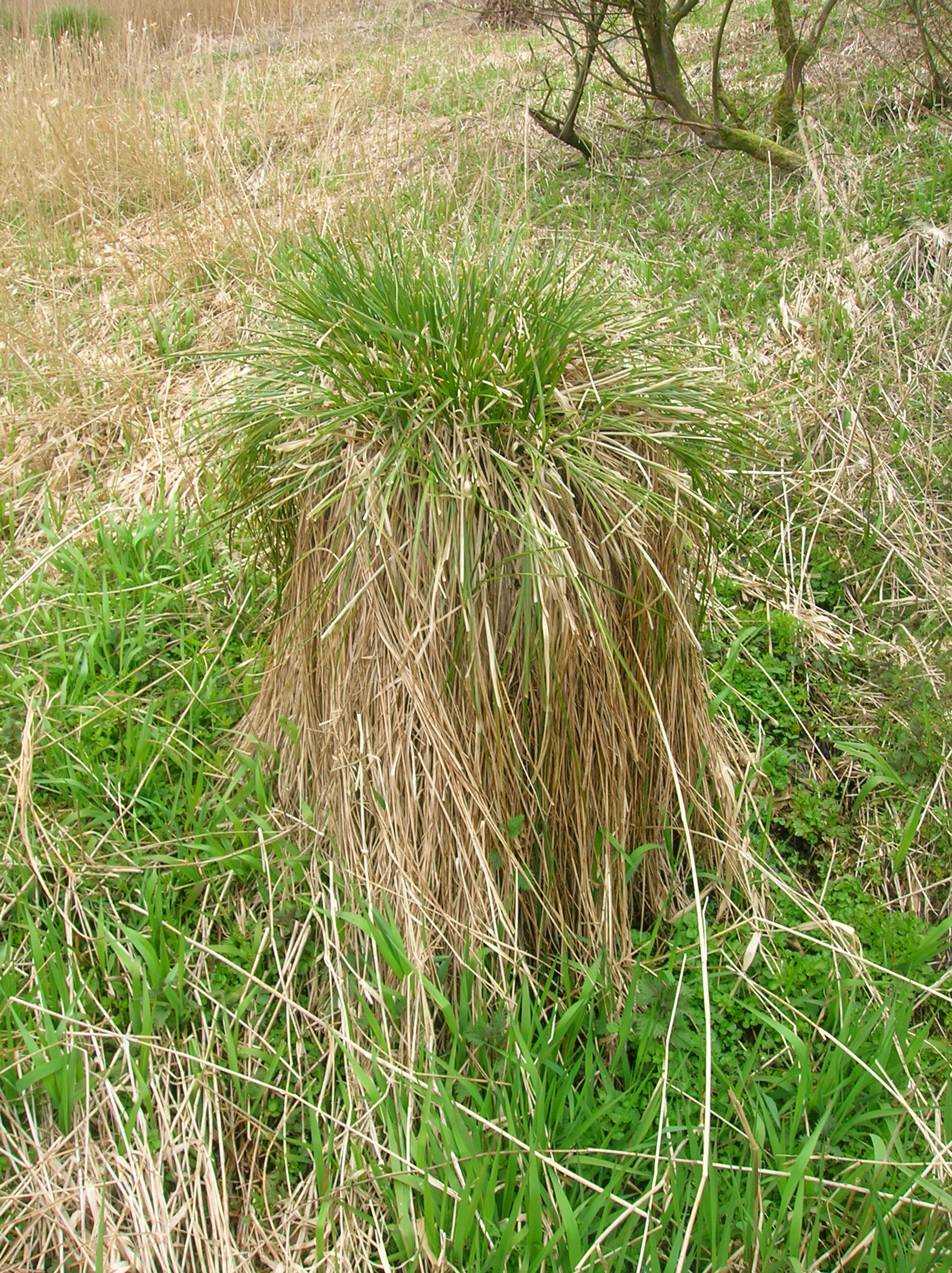 Greater Tussock Sedge, Carex paniculata at Loch Libo, Renfrewshire, Scotland